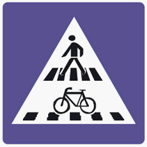 Diagram of road signs of Luxembourg